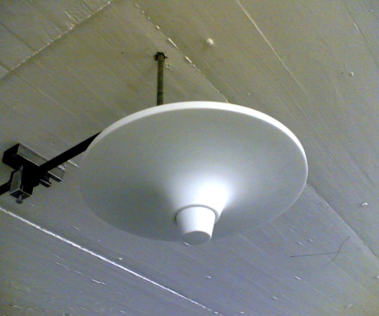 Omnidirectional Indoor Antenna GSM/UMTS (Kathrein, Art. No. 741 571)